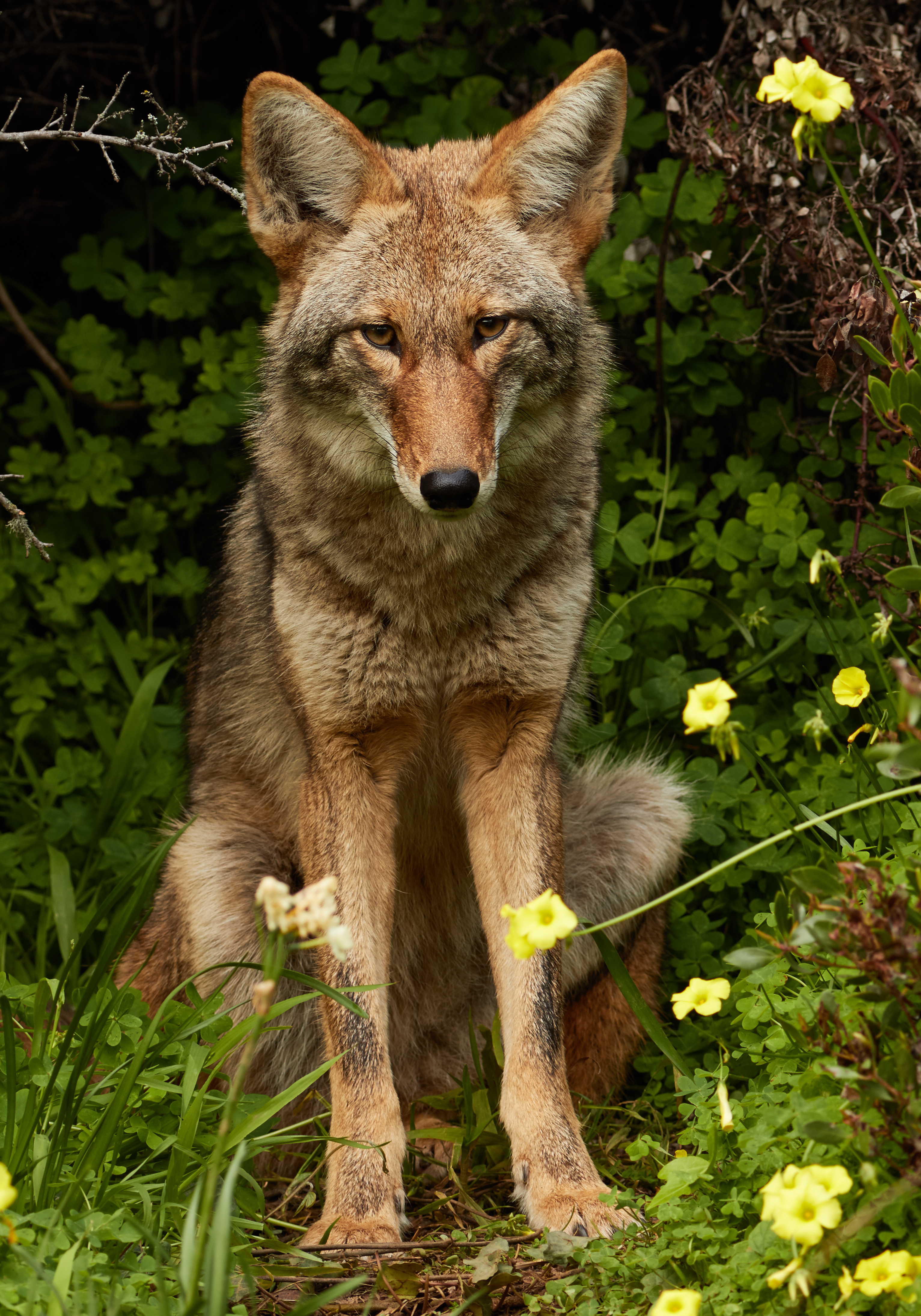 Coyote (Canis latrans) in Bernal Heights, San Francisco, California. For background information see Coyote finds SF's Bernal Heights to be a suitable hangout on KTVU, 10 February 2016.